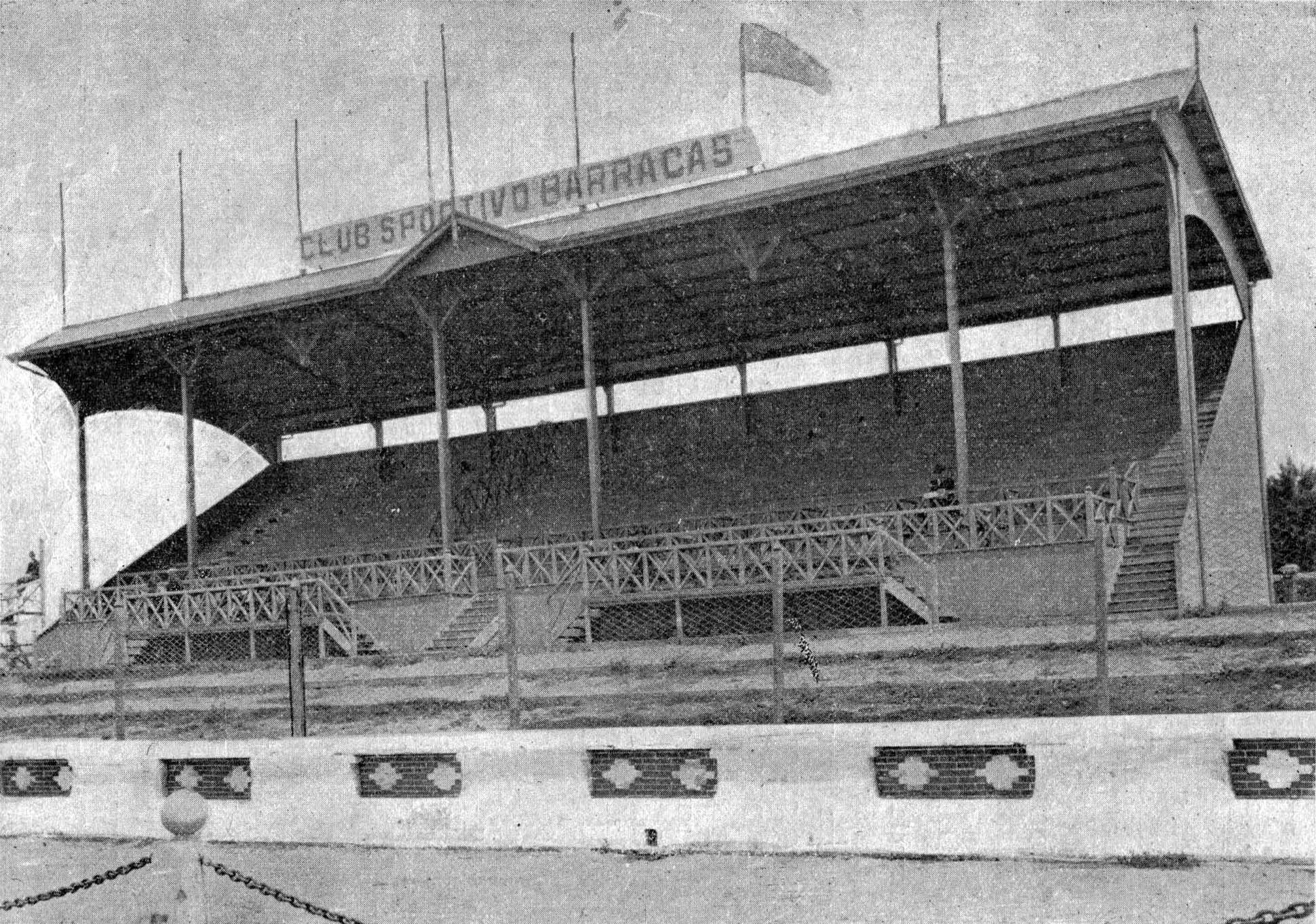 Estadio Iriarte y Luzuriaga, Sportivo Barracas stadium and one of the main football pitches in Argentina during the 1920s